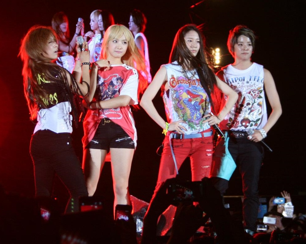 f(x) in 2012